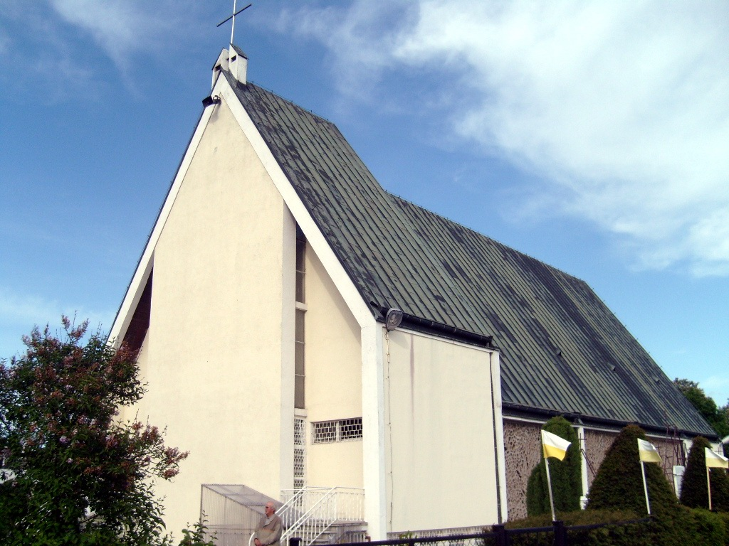 The church in Laskowice, Poland